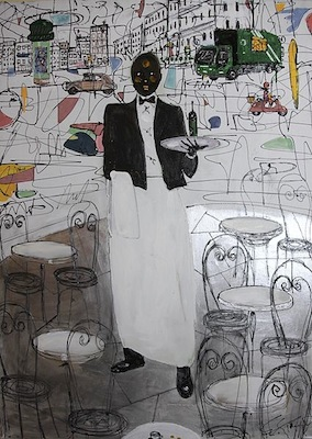 Ealy Mays's tribute to the emergence of black waiters in France